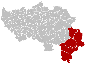 Municipalities in the "Belgische Eifel" (Belgian Eifel), province Liège